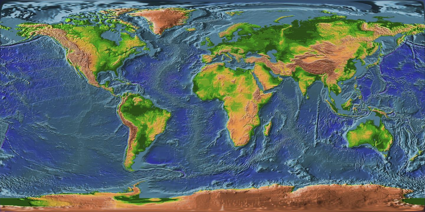 Nice topo-like map colored by land/ocean from the USGS.